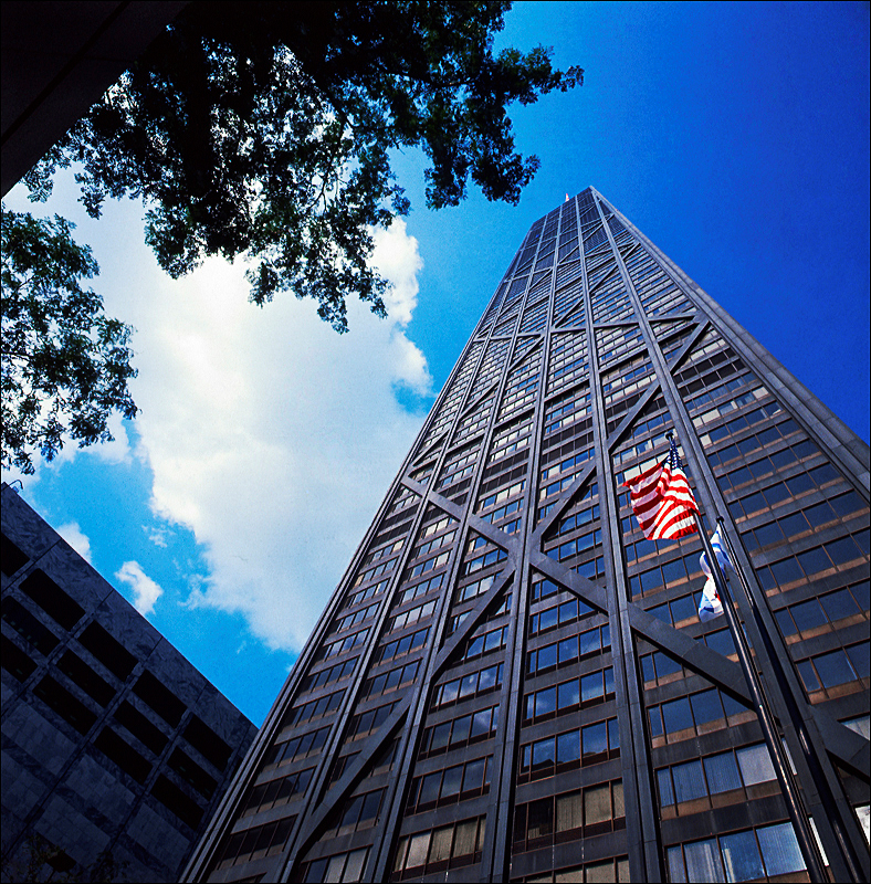 Chicago, IL: The The John Hancock Center on N. Michigan Ave. (along the "Magnificent Mile") was designed by structural engineer Fazlur Rahman Khan and Bruce Graham (both at Skidmore, Owings, and Merrill), and completed in 1969. Khan also worked on the Sears Tower (now called the Willis Tower), and the firm in general is responsible for many astounding structures around the world, including the amazing Burj Khalifa in Dubai (United Arab Emirates). Khan's considerable contributions to architecture and structural engineering are well described in the Wikipedia article mentioned above.